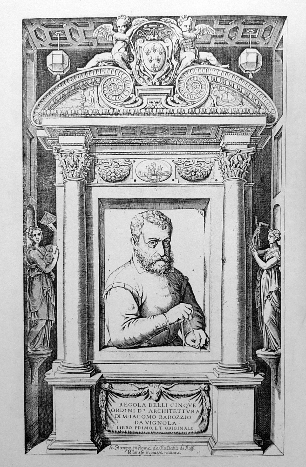 Giacomo Barozzi da Vignola: Regola delle cinque ordine dell'architettura, 1562